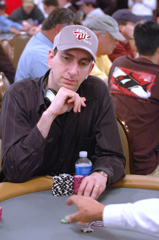 Erik Seidel during the 2006 World Series of Poker